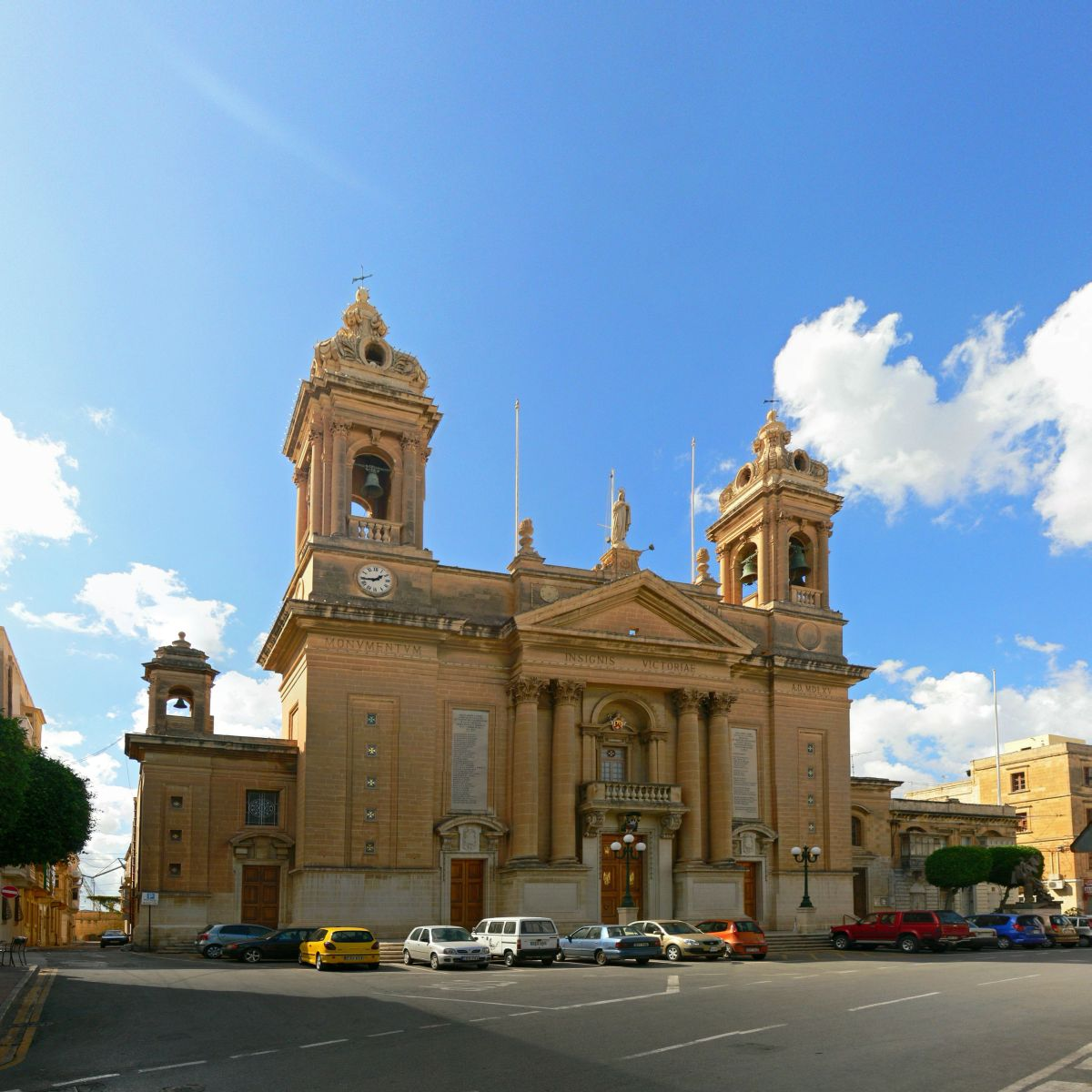 The Nativity of the Virgin Mary parish church in Isla (Senglea), Malta. Probably built by Ġlormu Cassar